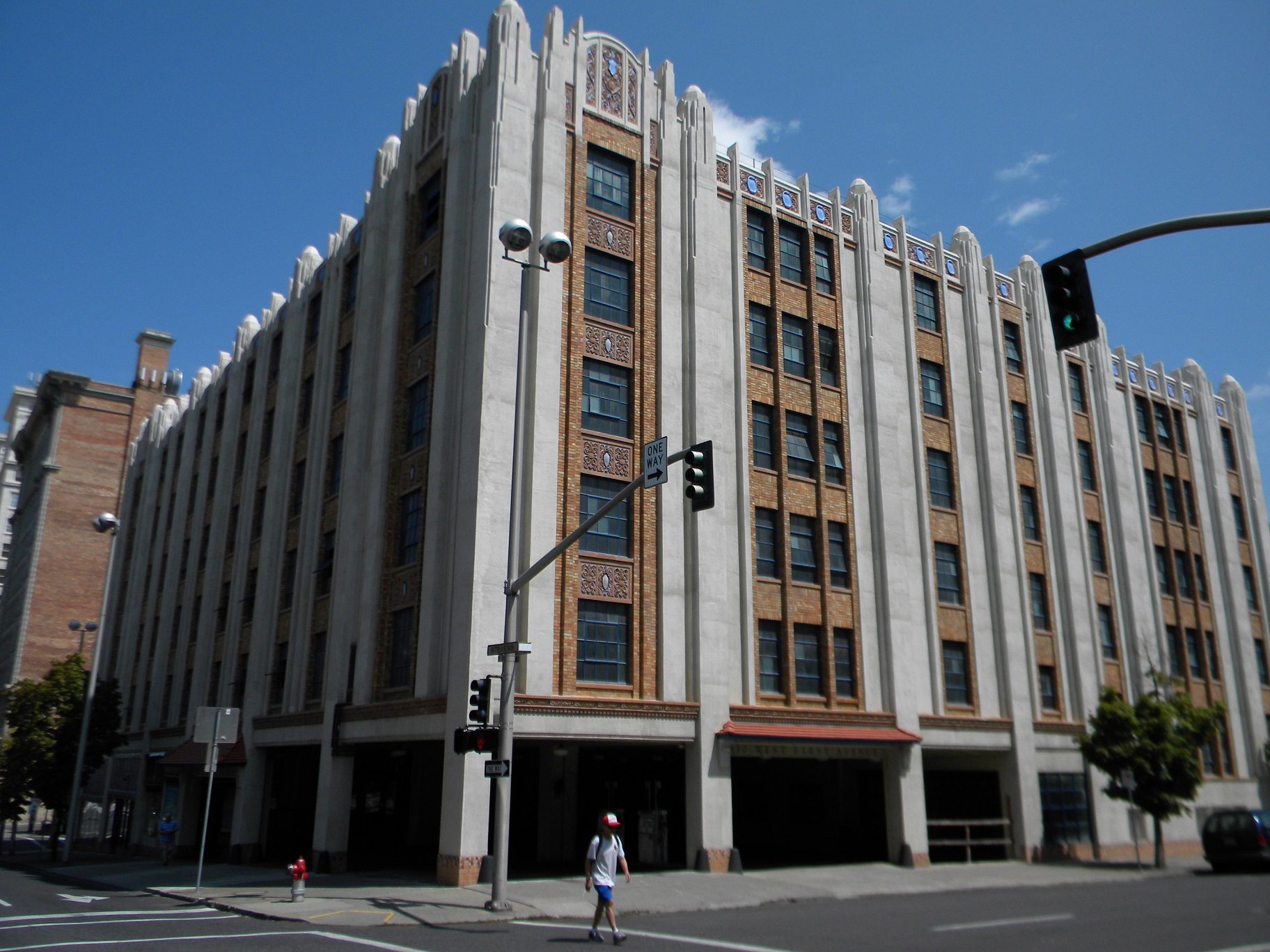 City Ramp Garage not the Holley-Mason Building